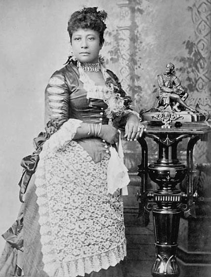 Princess Miriam Kapili Kekauluohi Likelike (1851–1887) was the younger sister of the last two ruling monarchs of the Kingdom of Hawaii. She married Scottish financier Archibald Cleghorn when she was 19 and he 35.